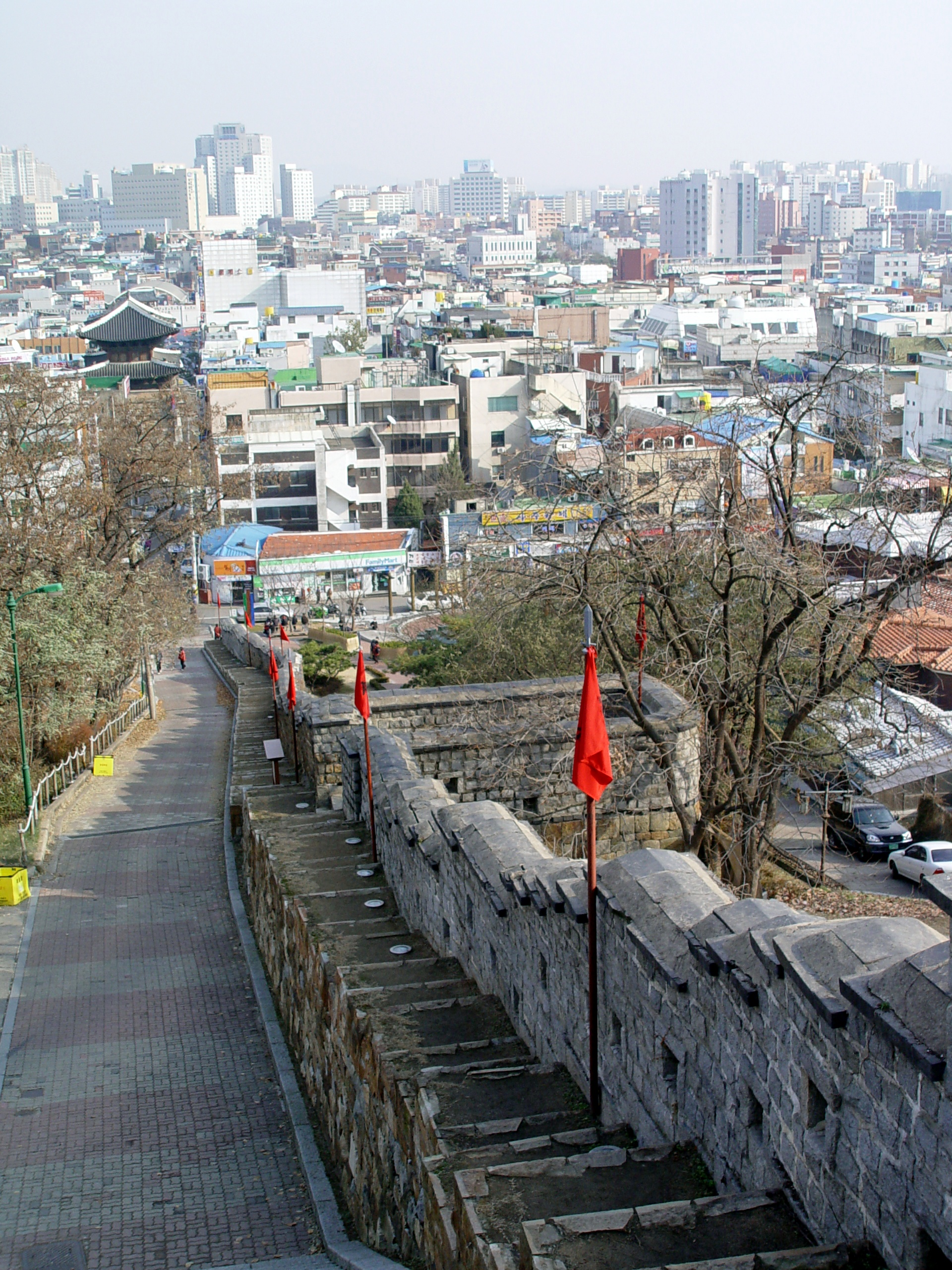 The west side of Namchi, Hwaseong Fortress, Suwon, South Korea